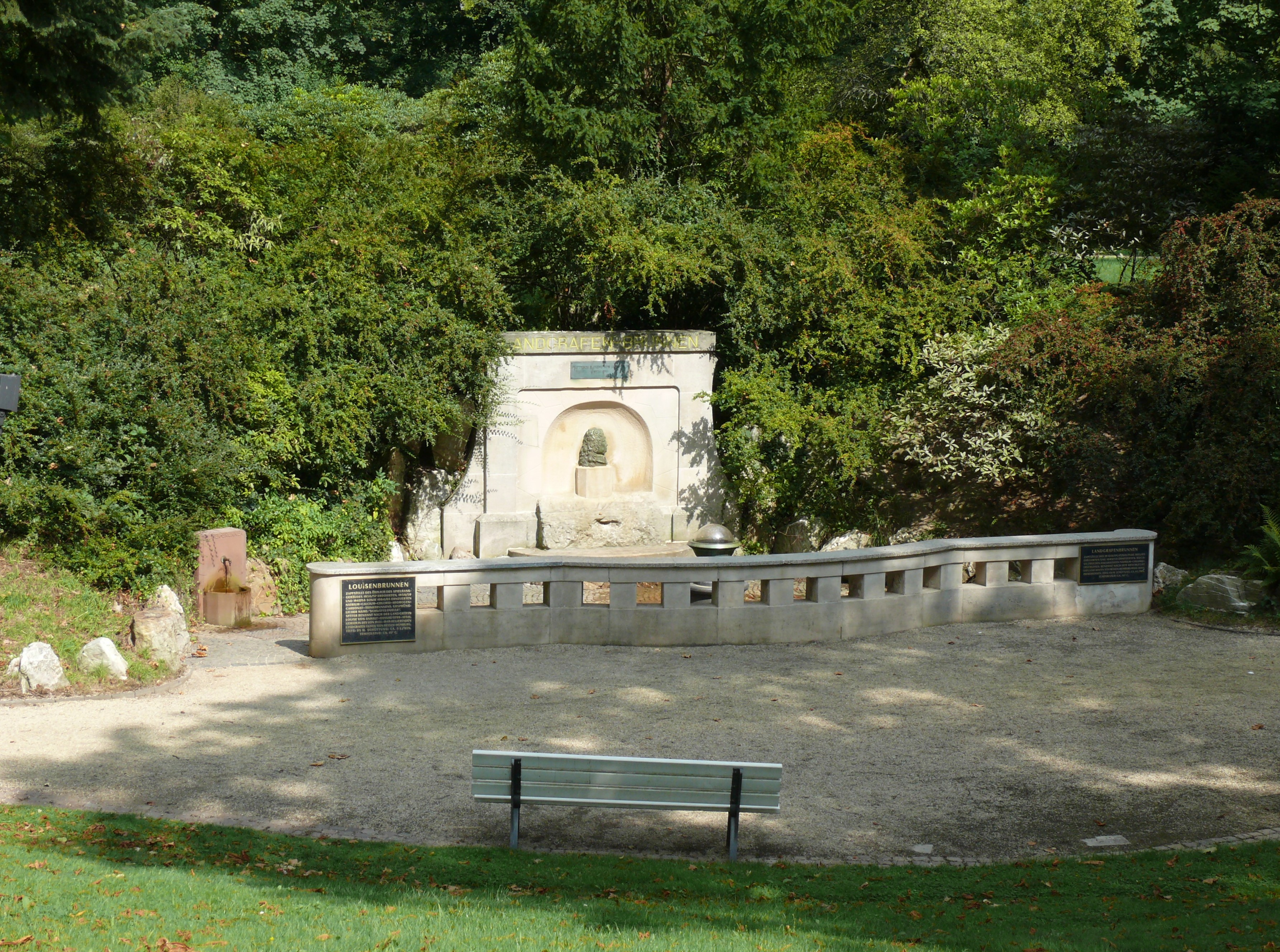 "Louisenbrunnen" and "Landgrafenbrunnen" (mineral wells) at "Kurpark" in Bad Homburg, Hesse, Germany